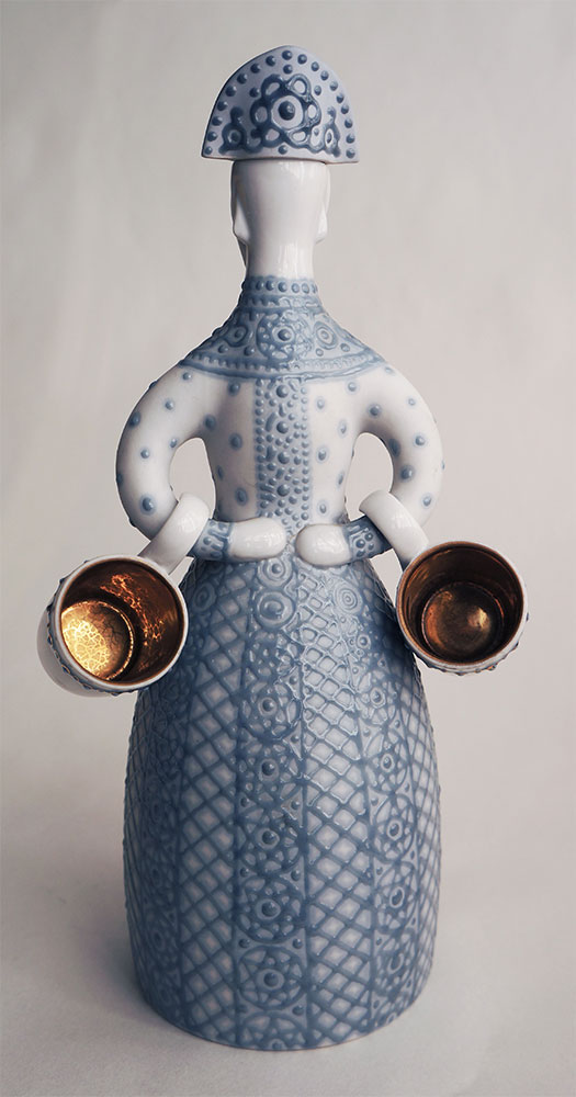 Porcelain. Author Bystrushkin B.D. Leningrad. USSR.